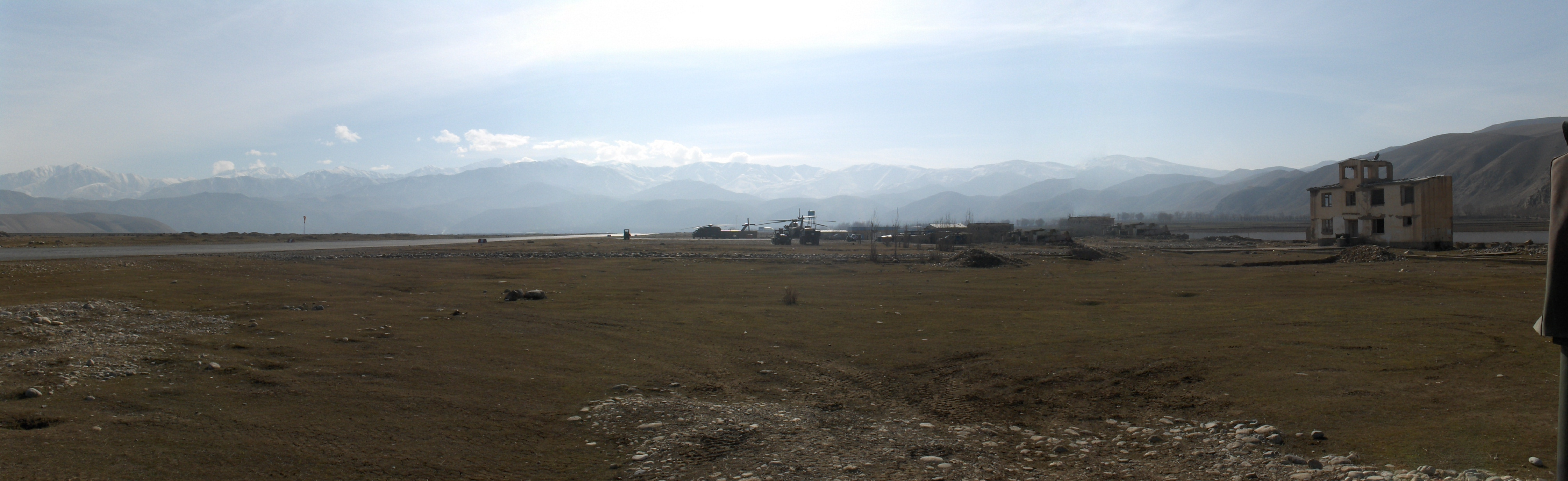 View onto Feyzabad International Airport from the North. Left part is the airstrip. On the right side beside the helicopters is a hardened shelter for waiting personel.